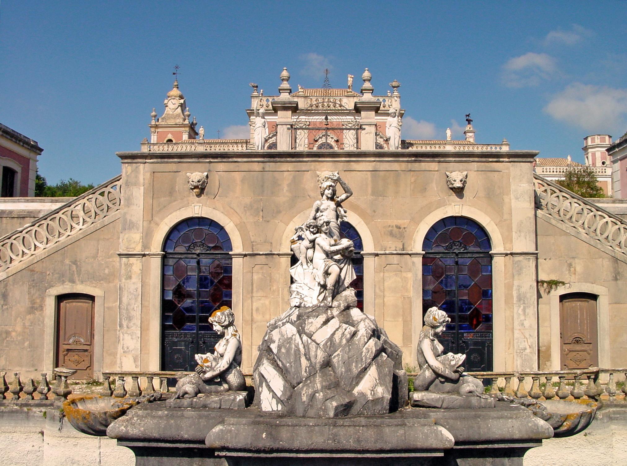 Baroque garden fountain sculpture — on garden terrace of the Palácio de Estoi. Located in Estoi, Faro district, Algarve region, Portugal.